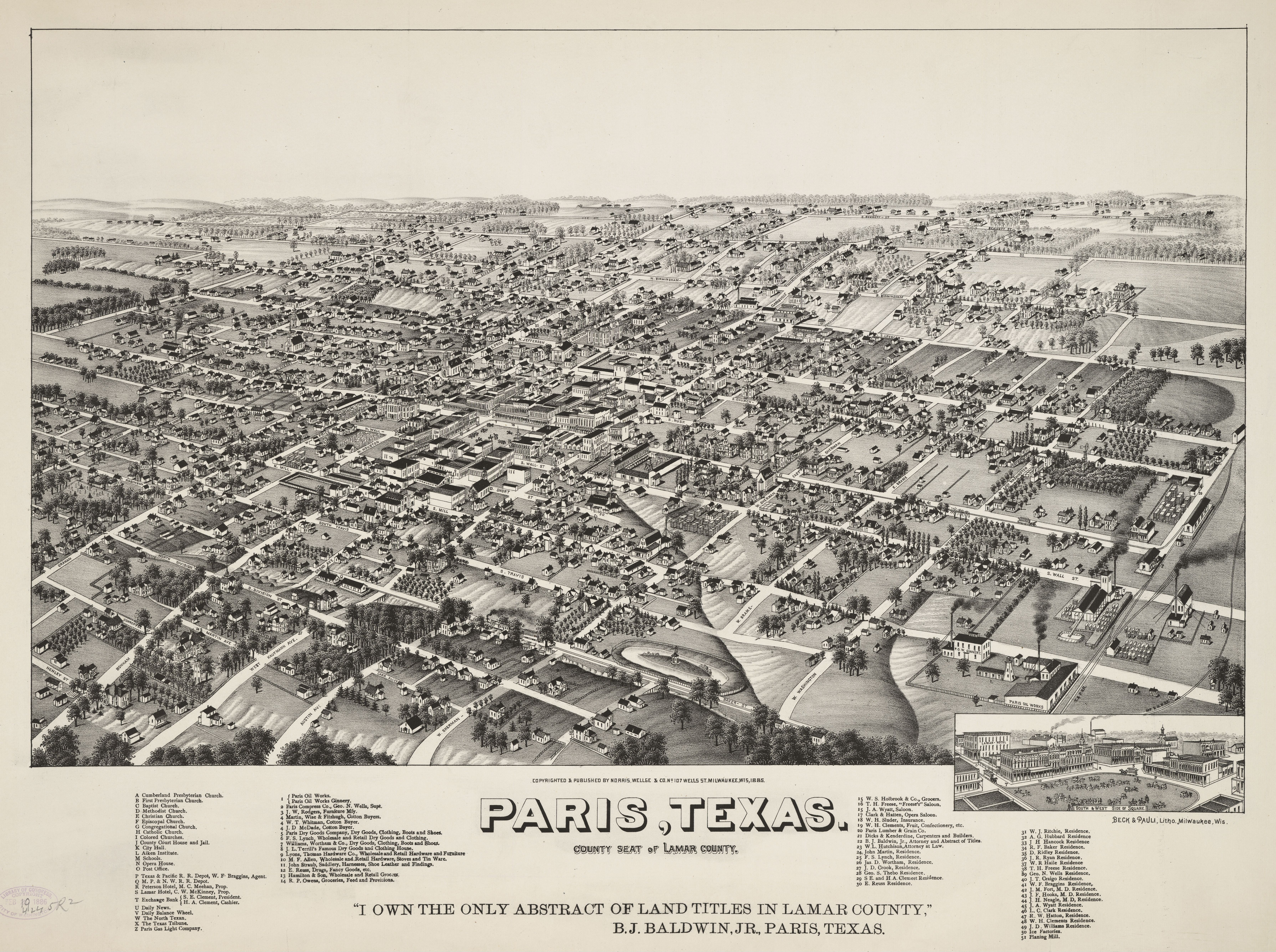 Paris, Texas in 1885. Paris, Texas. County Seat of Lamar County, 1885. Lithograph, 16.3 x 24.9 in., by Beck & Pauli, Litho. Milwaukee, Wis. Amon Carter Museum, Fort Worth.